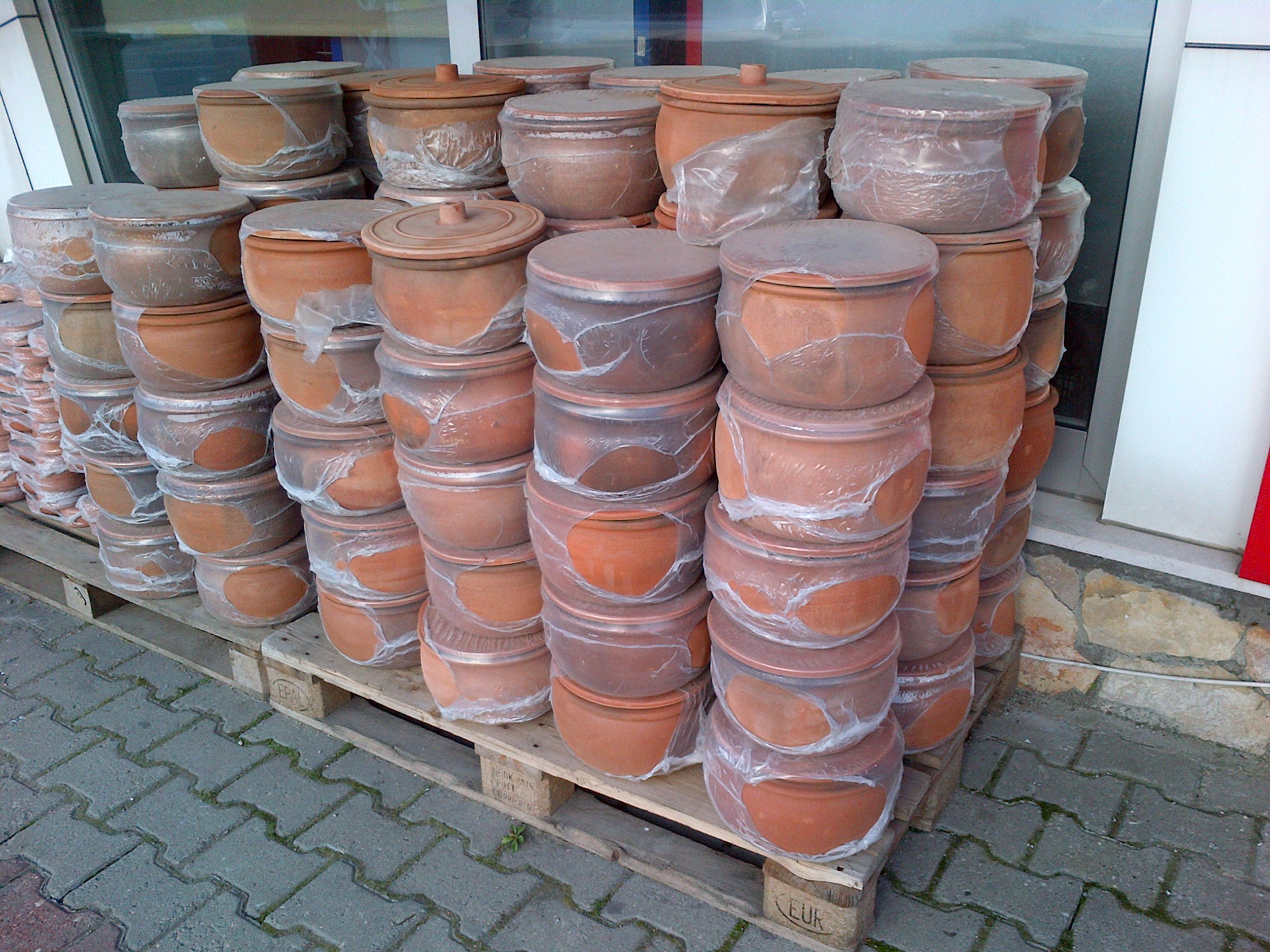 Turkish güveç cooking pots at sale.